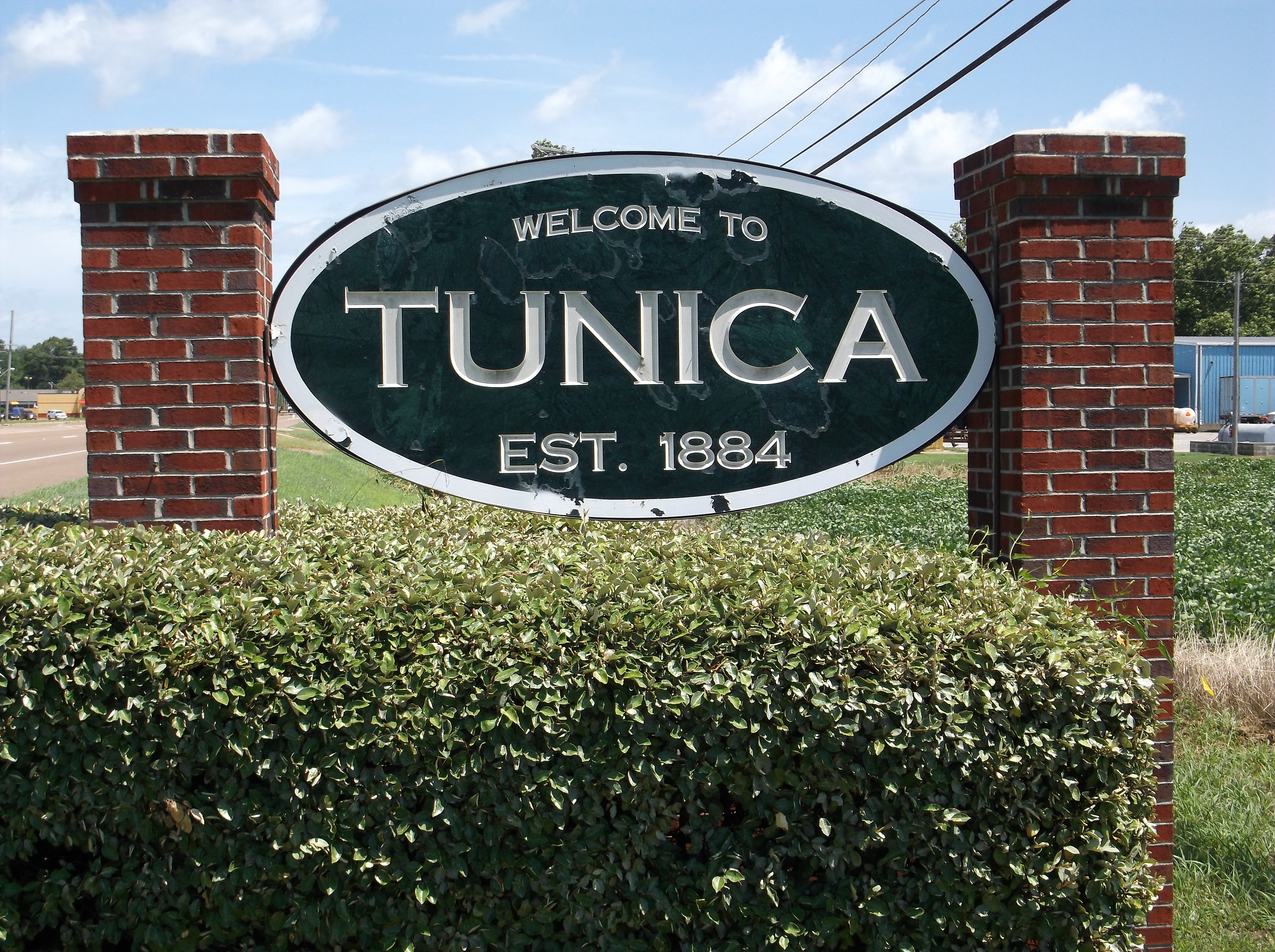 Town sign located on US Highway 61